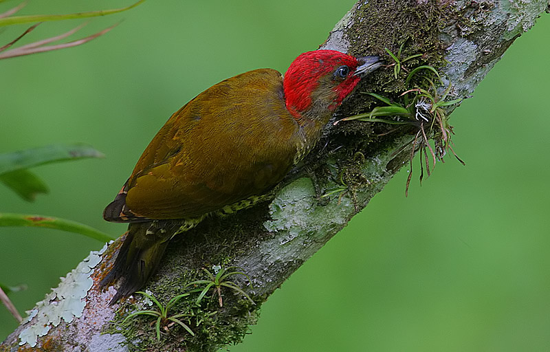 An adult male feeding. Image taken on the slope of the Arenal Volcano, Costa Rica.